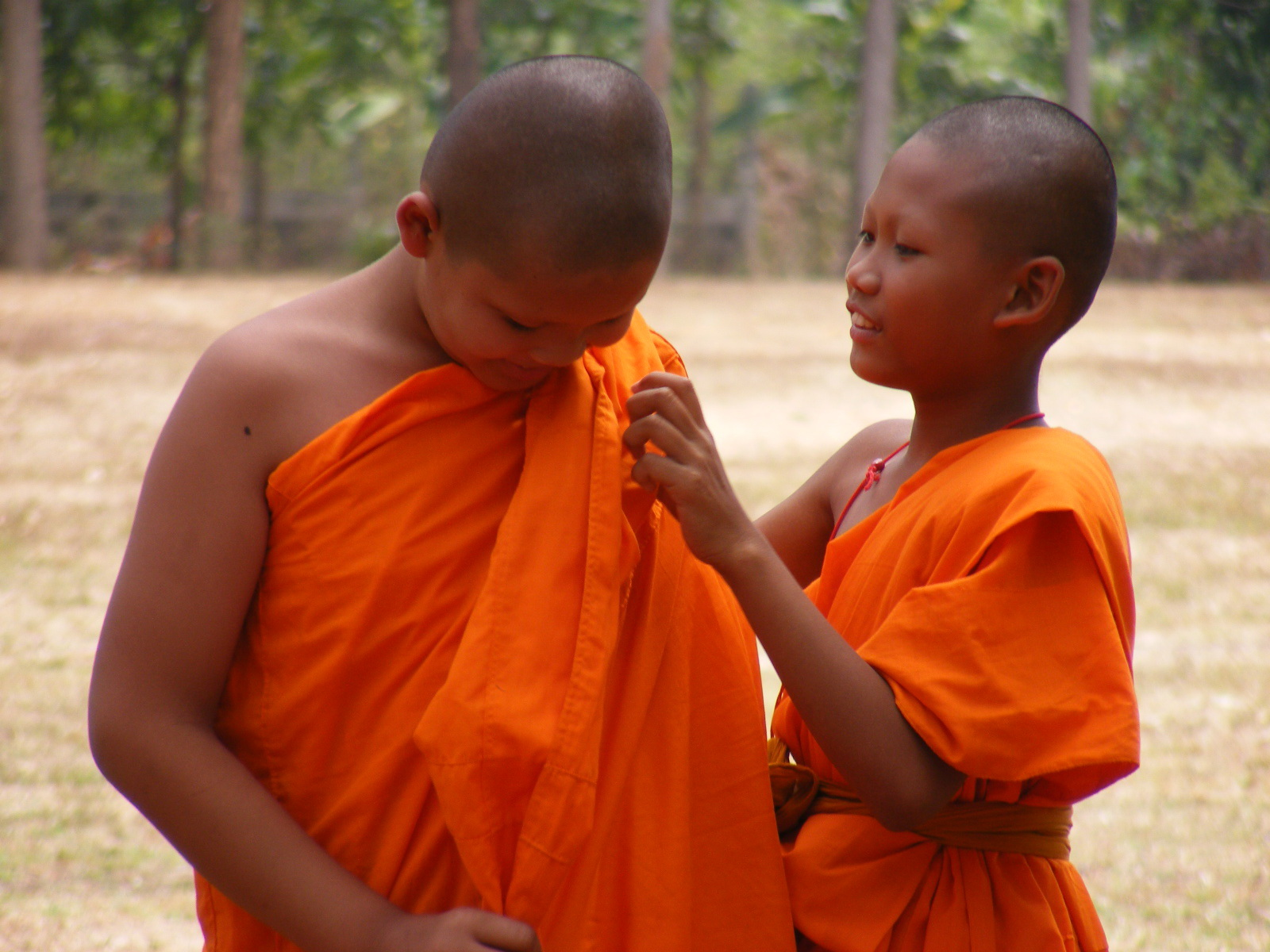 Thai Buddish Monk in Ban Pha Cuk, Pha Chuk subdistrict, Mueang Uttaradit, Uttaradit Province, Thailand.